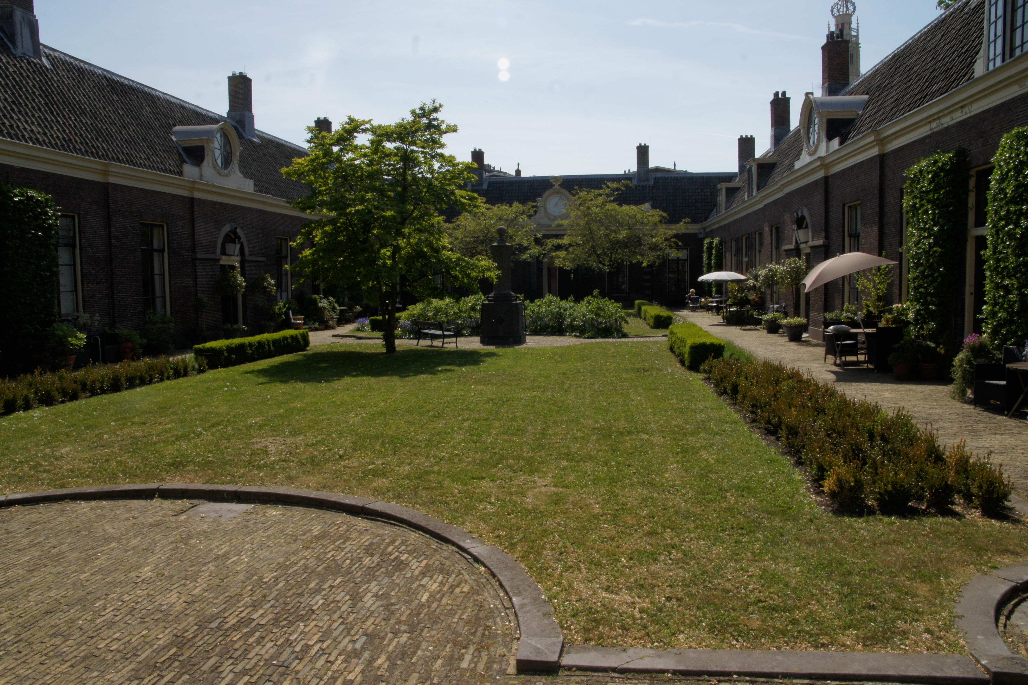 Teylers Hofje, an Almshouse built in 1787 with a central courtyard that provides Commune-like housing for elderly women.